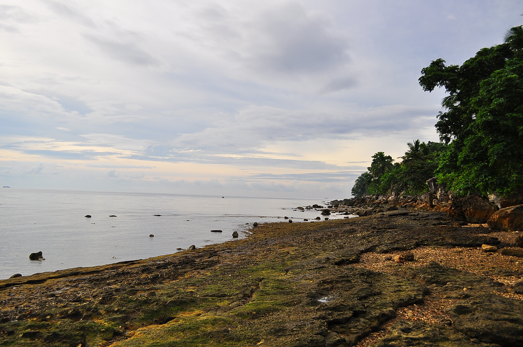 Stony beach in Panalipan, Catmon, Cebu, Philippines